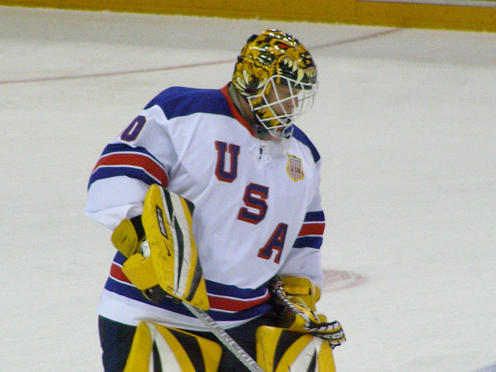 United States goaltender Tim Thomas plays against Latvia during the 2008 IIHF World Championship